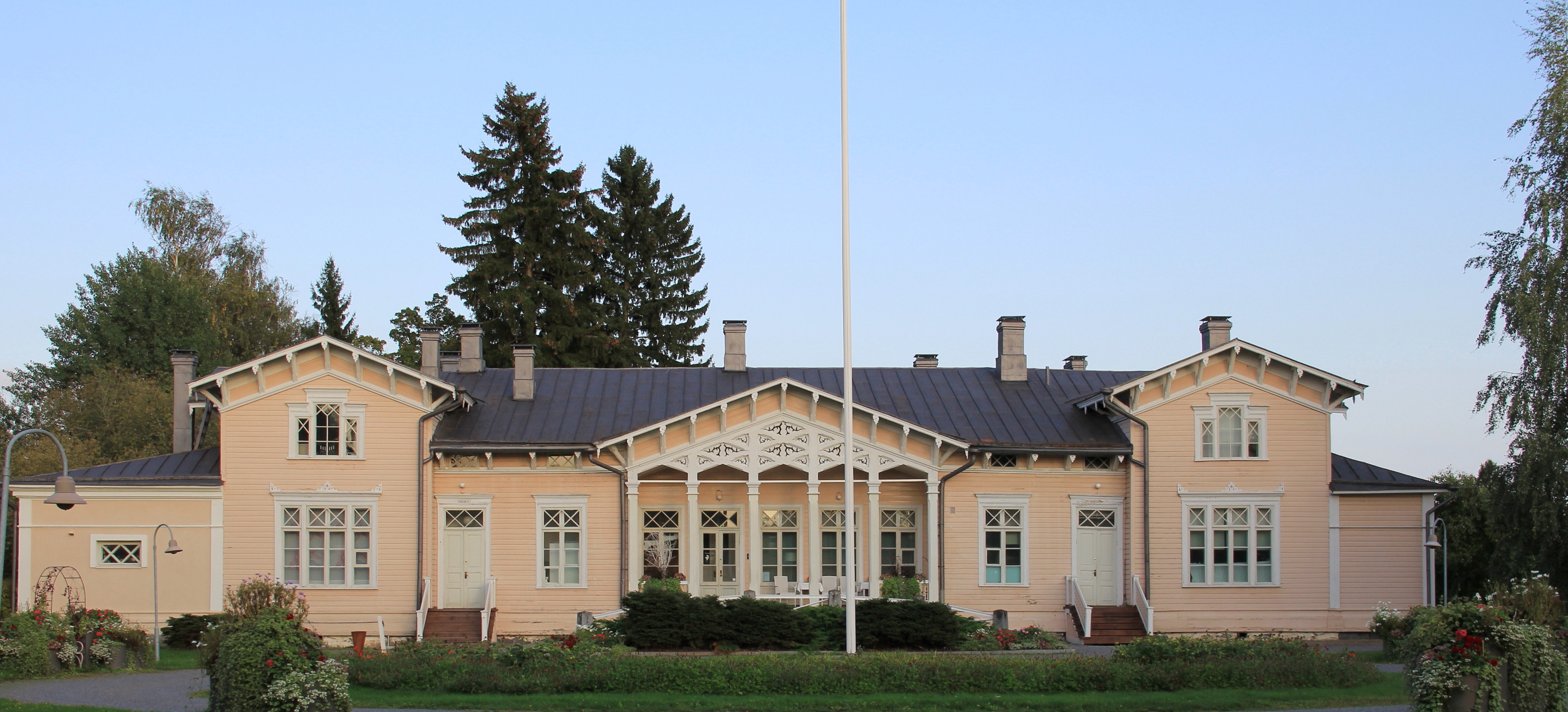 Kenkävero rectory main building, Mikkeli, Finland. - Main building was designed by architect Alfred Cavén and it was completed in 1869.